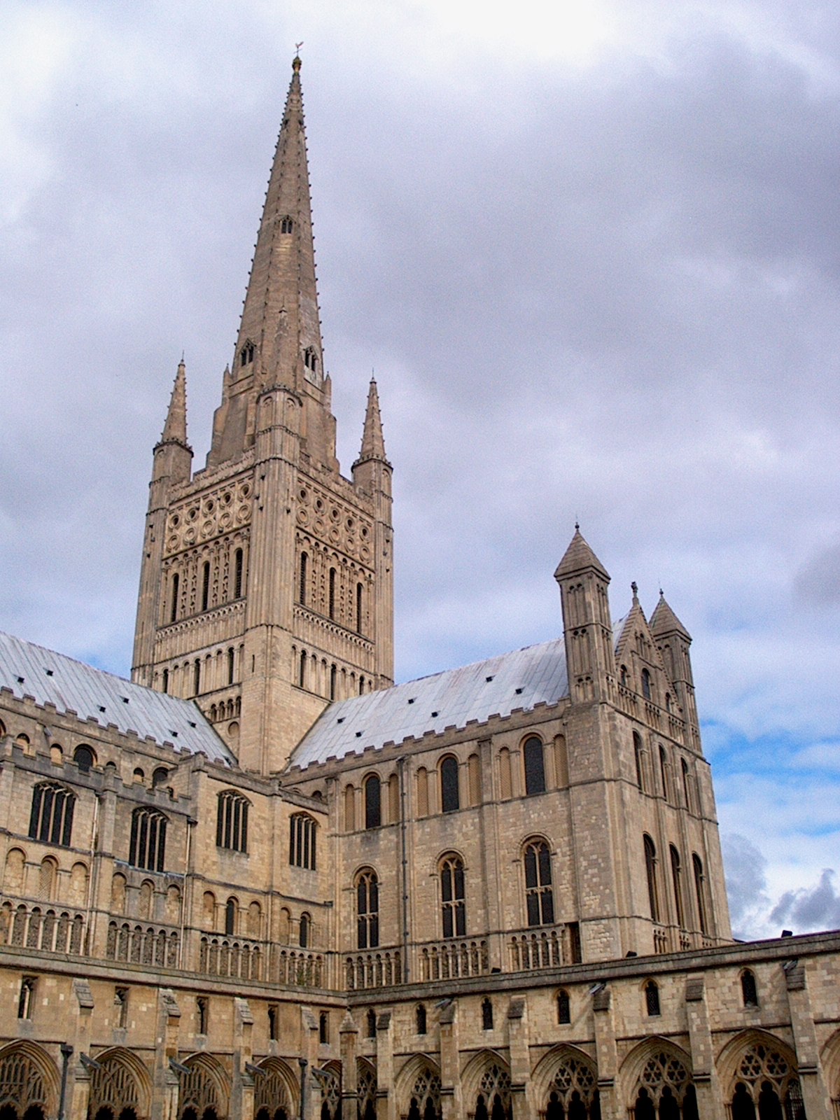 Central tower, spire and south transept of Norwich Cathedral, Norfolk, England